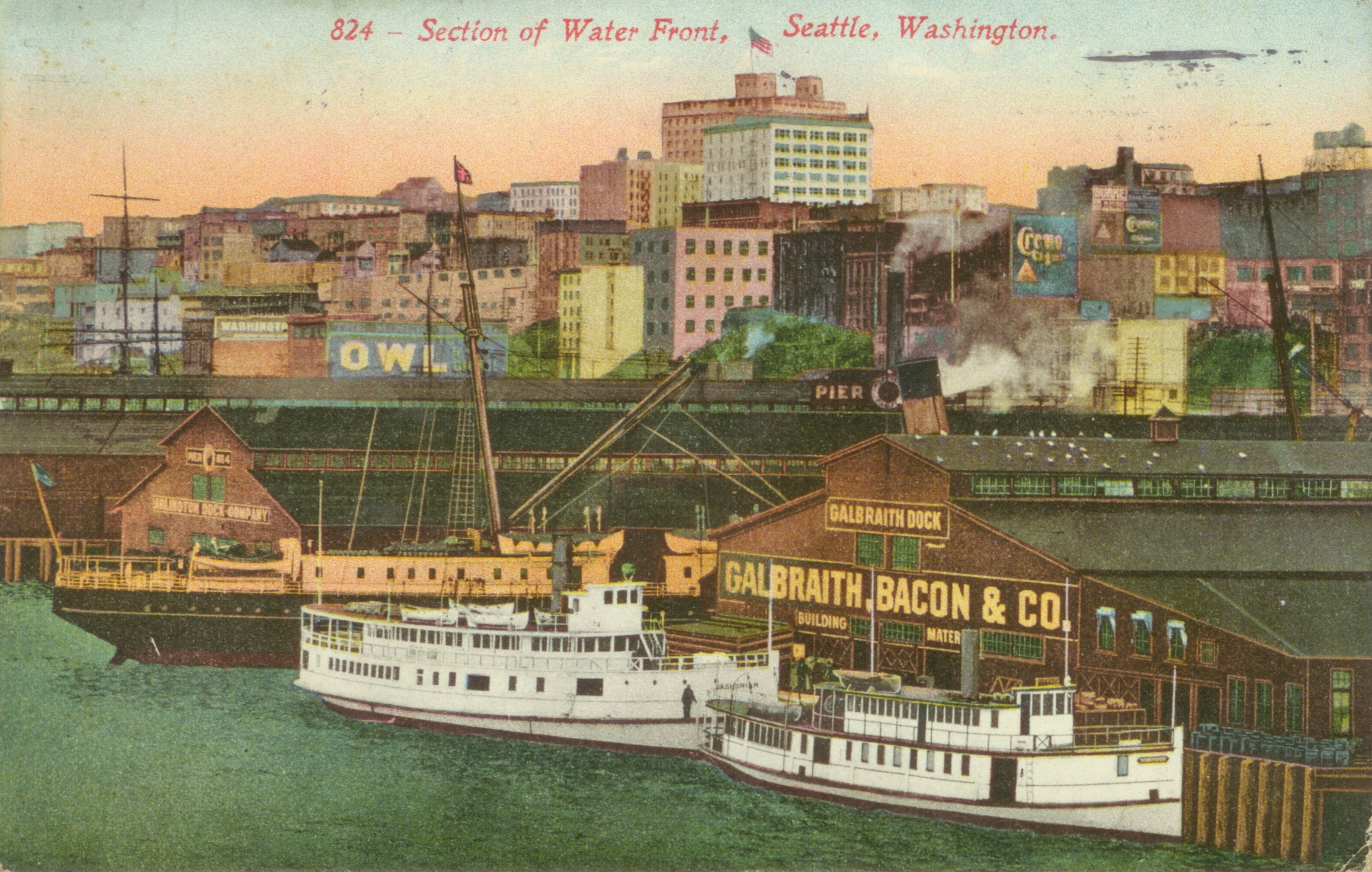 From an old colorized postcard, postmarked September 17, 1912. Steamboat Vashonian on left, steamboat Norwood on right, large unidentified ocean-going steamer on far side of pier, with masts of sailing ship visible beyond.